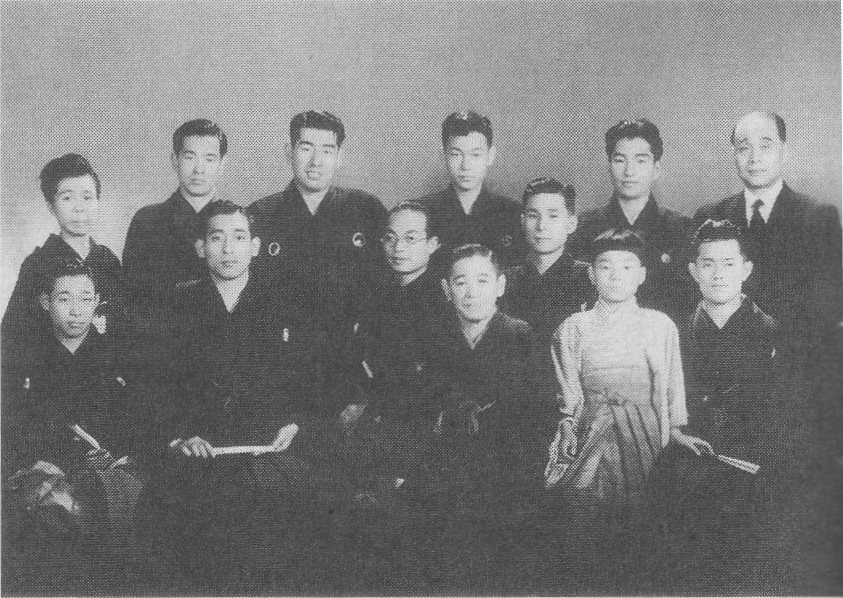 Takarazuka Hope Rakugokai, January 1955.